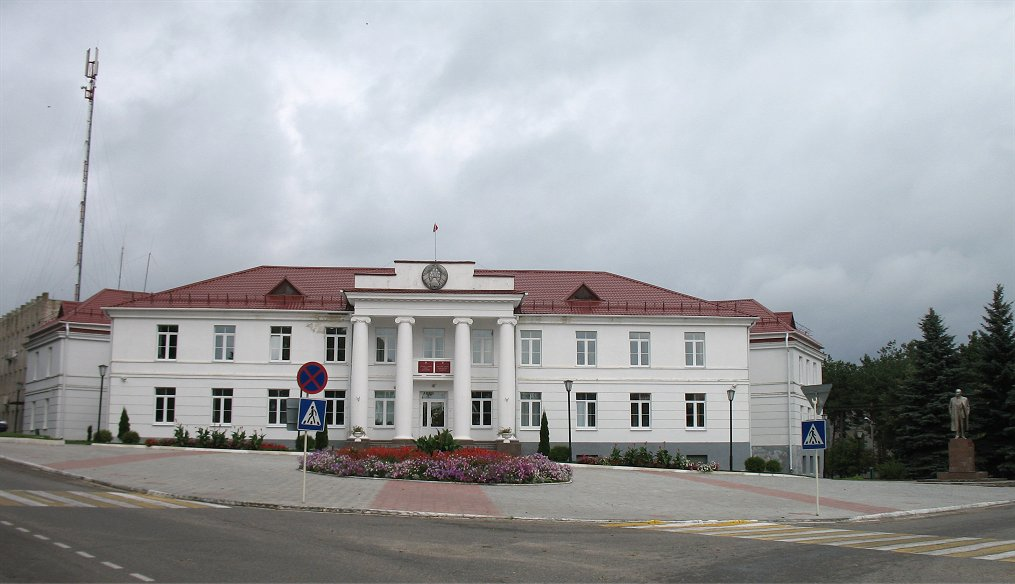 Administration building of Braslau district (Браслаў, Браслав, Braslav, Braslava, Breslauja), western part of Vit(s)ebsk region (province), Belarus.